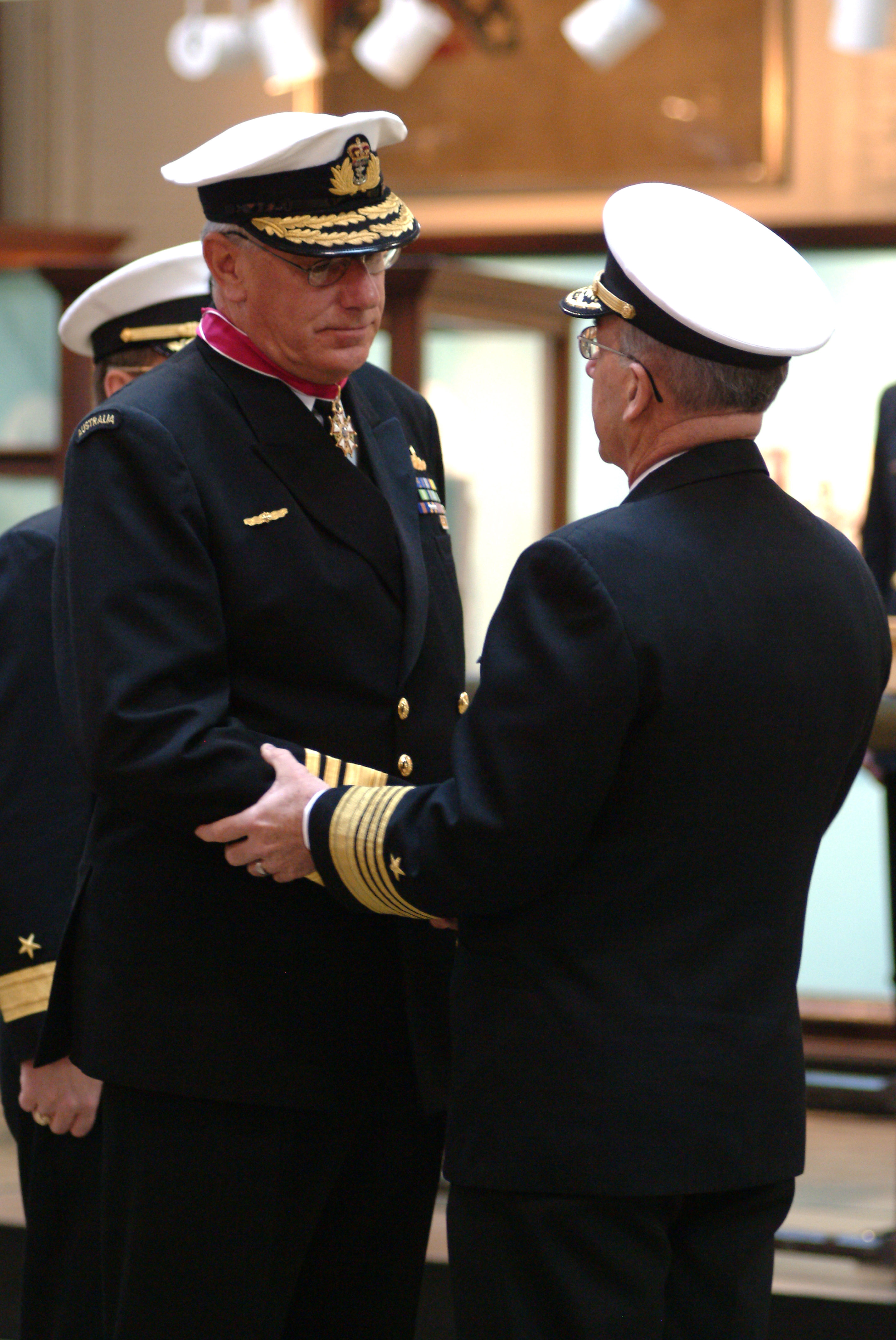 Washington, D.C., (Feb. 26, 2003) – Vice Adm. Chris Ritchie, Chief of Navy, Royal Australian Navy is congratulated by Adm. Vern Clark, Chief of Naval Operations (CNO) after receiving the Legion of Merit at a full honor ceremony conducted at the Washington Navy Yard's Navy Museum.